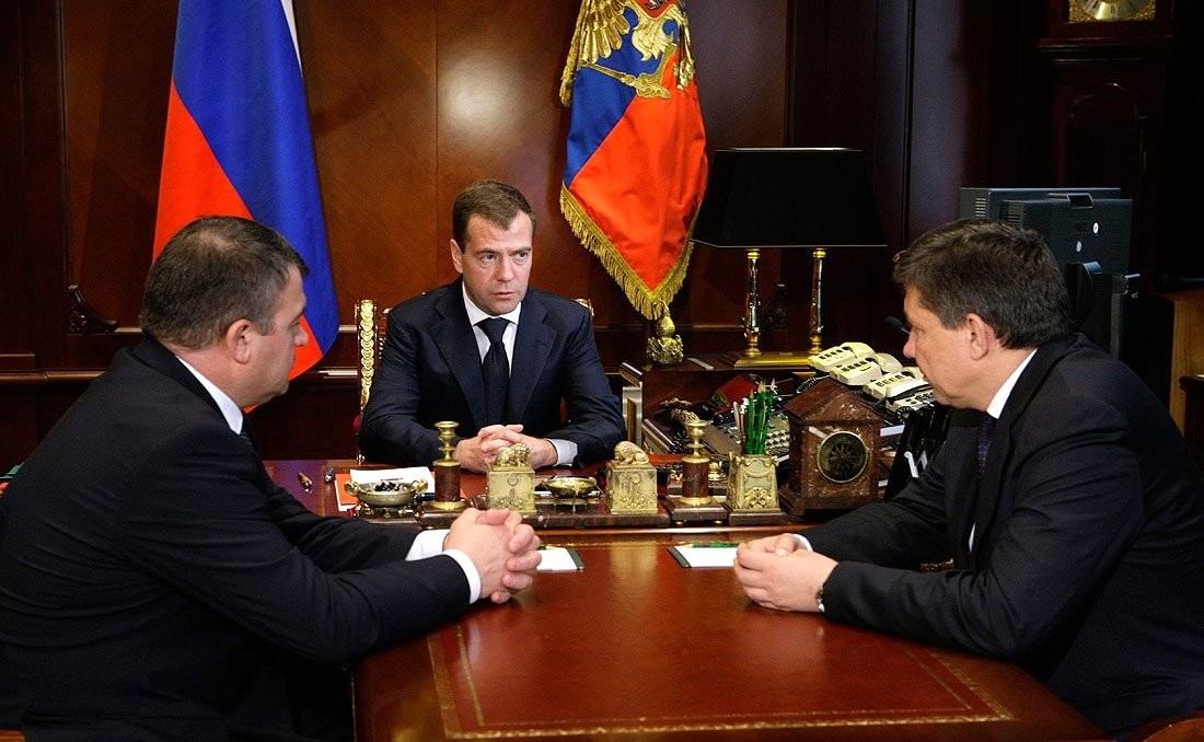 Russian President Dmitry Medvedev (centre), Anatoliy Serdyukov (left) and Vladimir Popovkin (right)